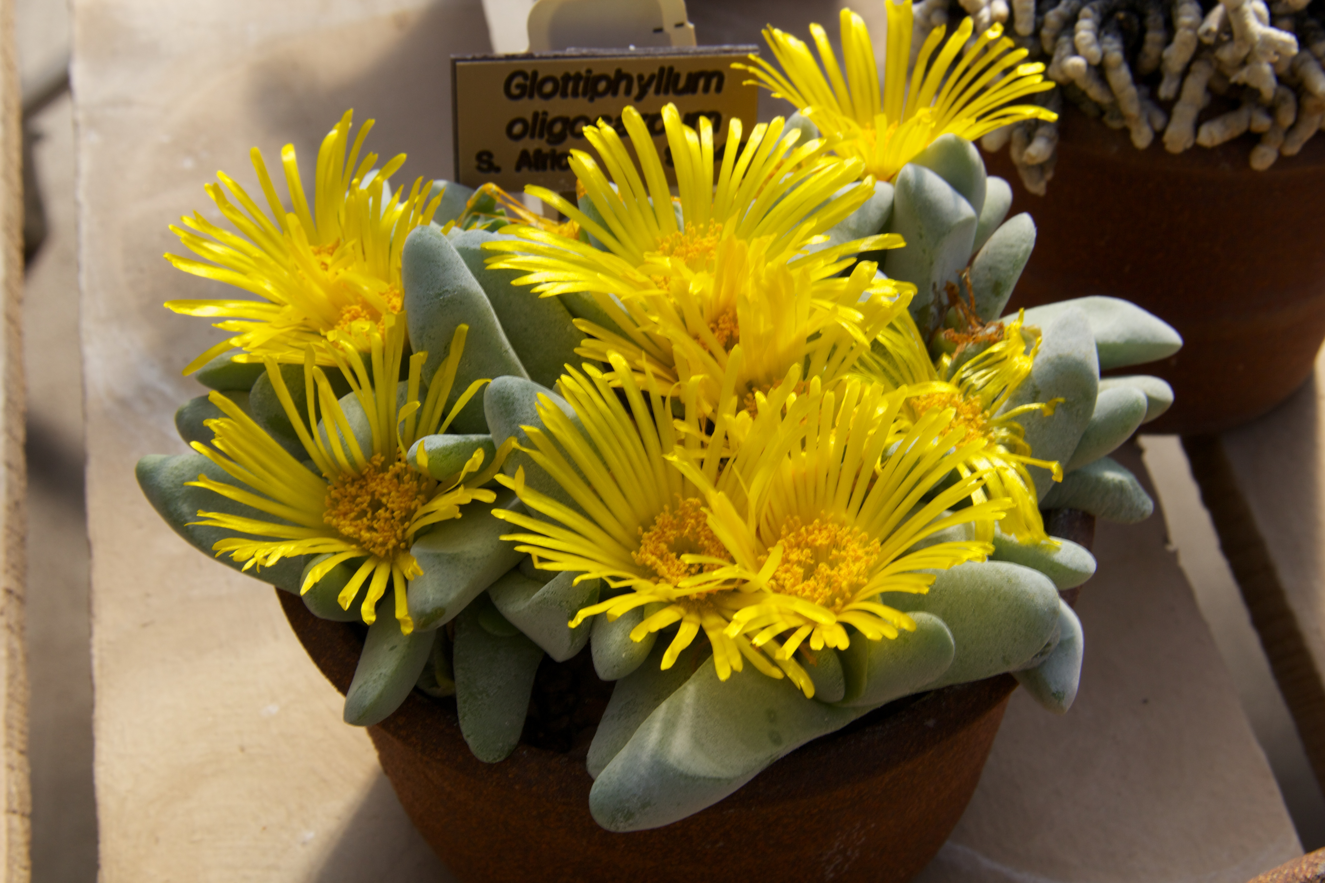 Glottiphyllum oligocarpum. S. Africa. 96348. At Huntington Library, Art Collections and Botanical Gardens.